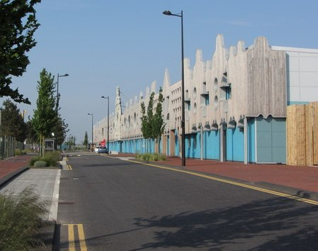 Roath Lock BBC studios